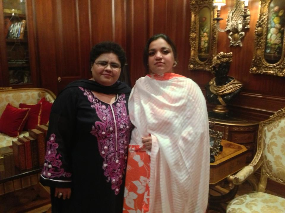 shazia manzoor with her personal secretary